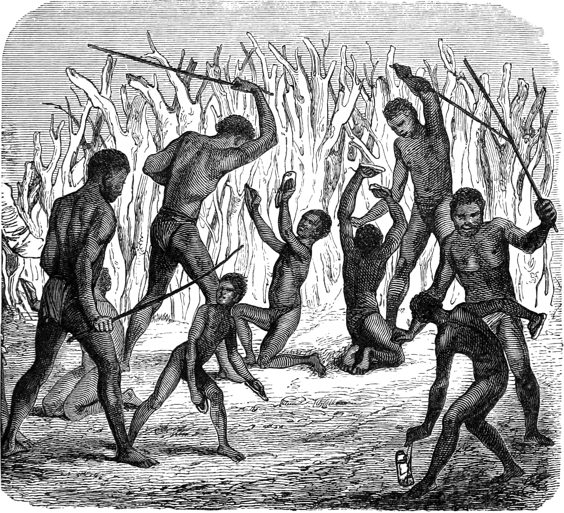 training the boys, from the book Seven Years in South Africa, volume 1, page 397